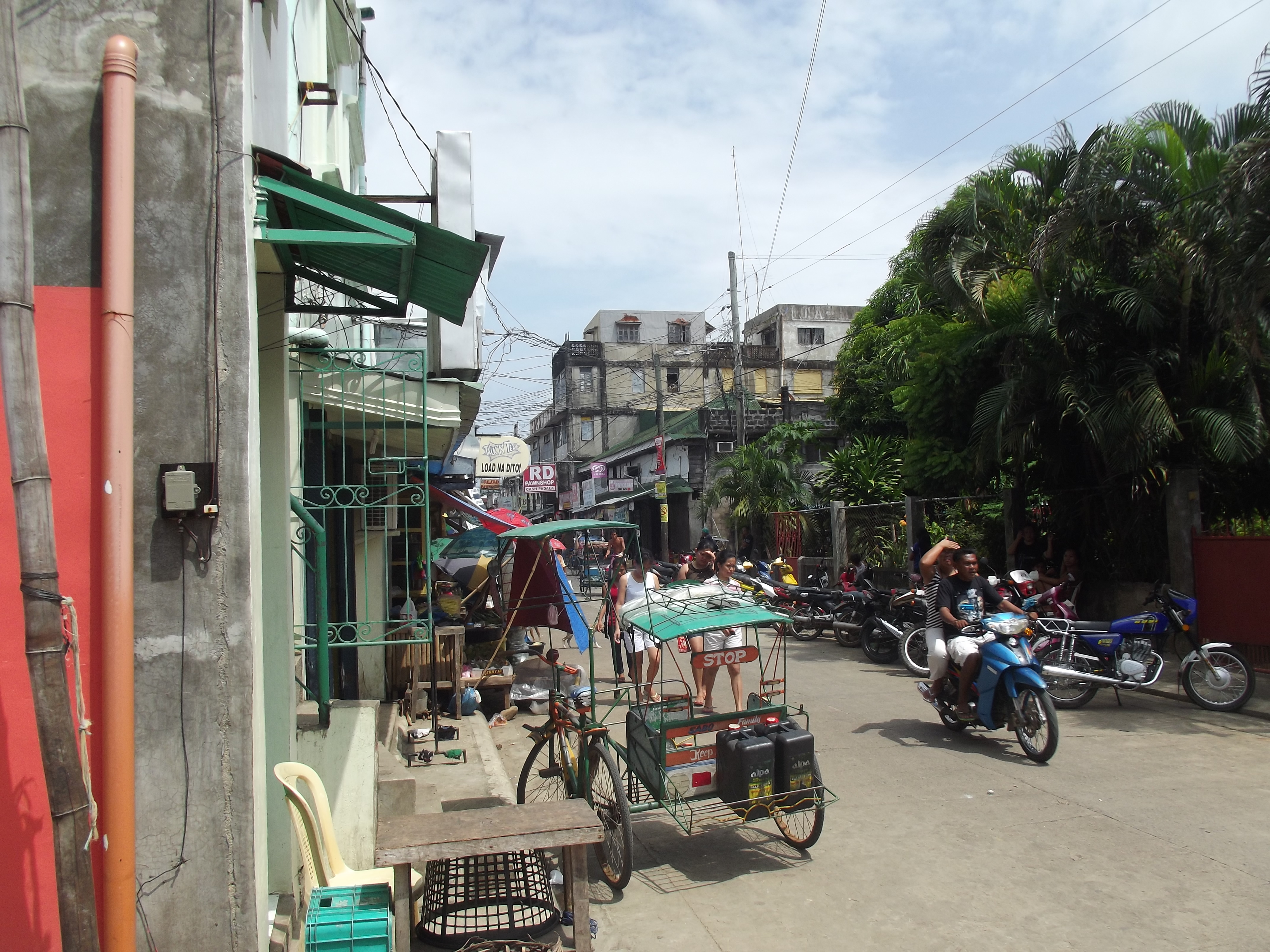 A street in Naval, Biliran in the Philippines.